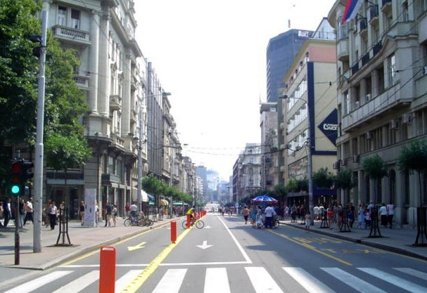 Kralja Milana Street, Belgrade, Serbia